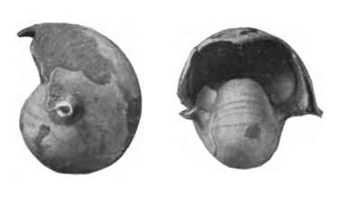 Eutrephoceras dekayi from the Ripley Formation on Coon Creek, Tennessee